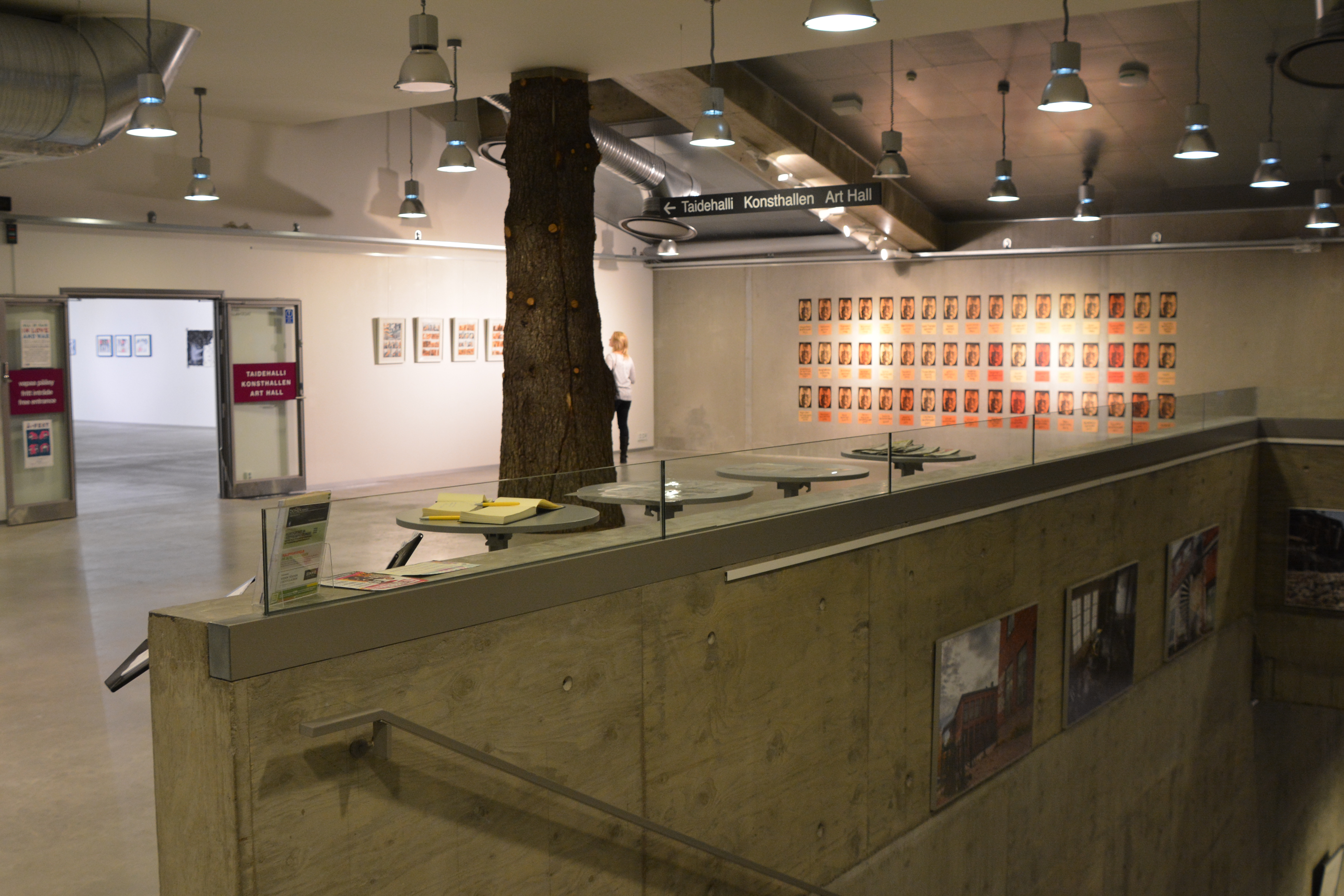 Konsthallen Borgå, entré